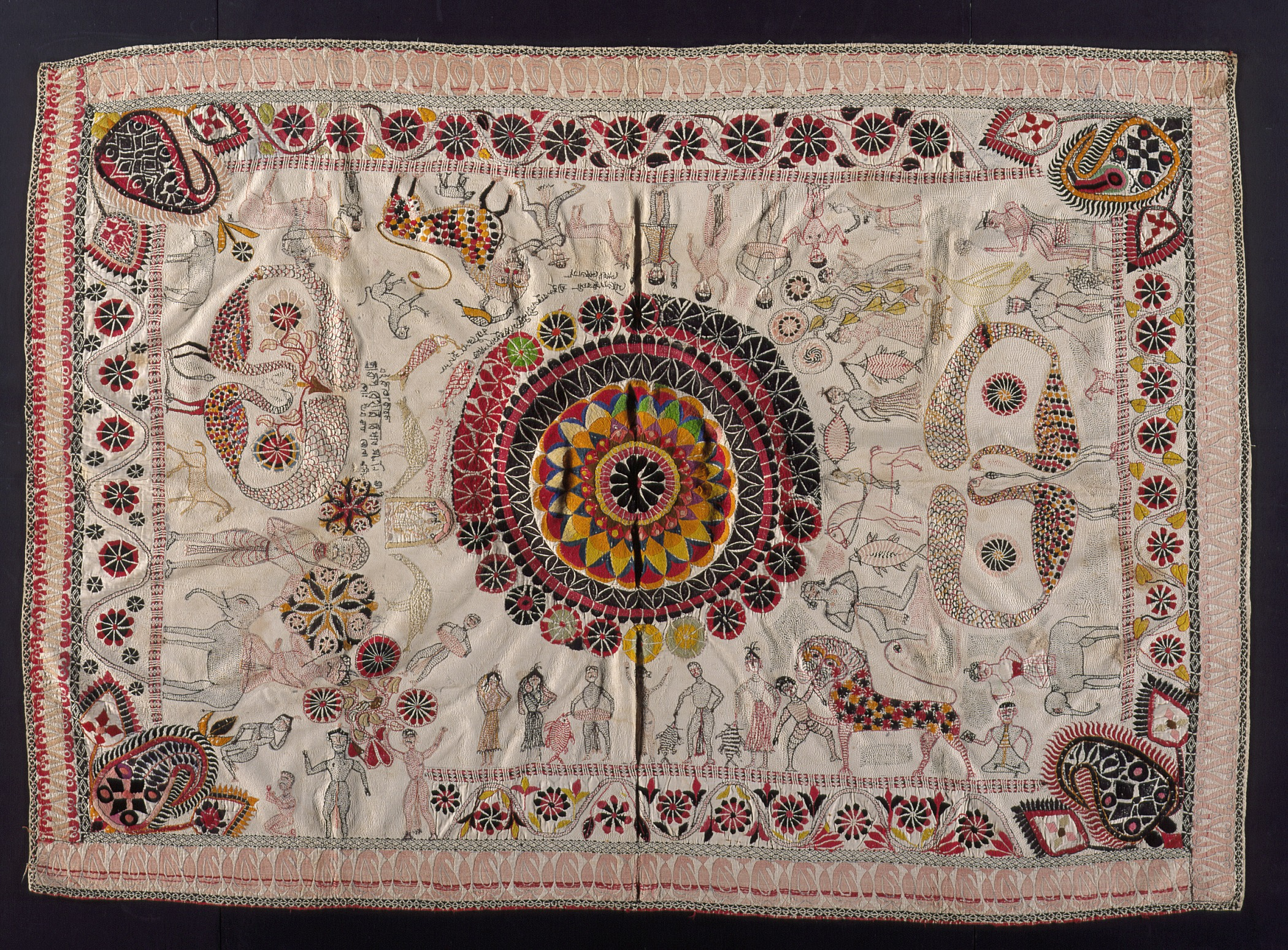 India, East Bengal (Modern Bangladesh), 19th century Textiles; quilts Cotton and wool thread embroidery on plain-weave cotton 78 1/2 x 55 1/2 in. (199.39 x 140.97 cm) Purchased with funds provided by Harry and Yvonne Lenart (AC1994.131.1) Costume and Textiles